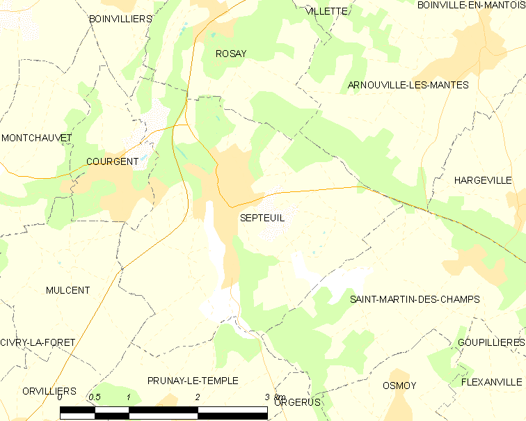 Map of French municipality Septeuil